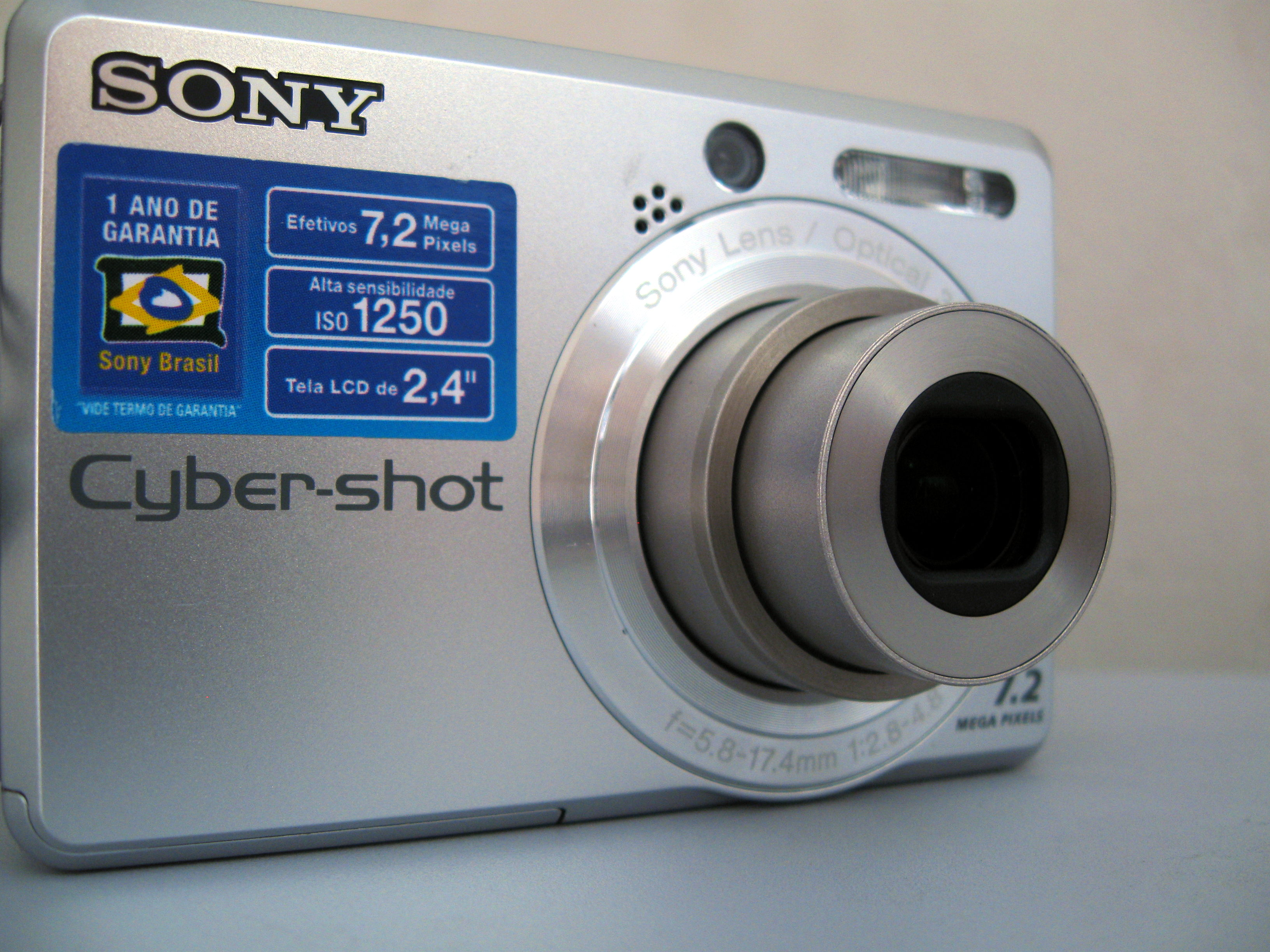 Sony cybershot dsc s730